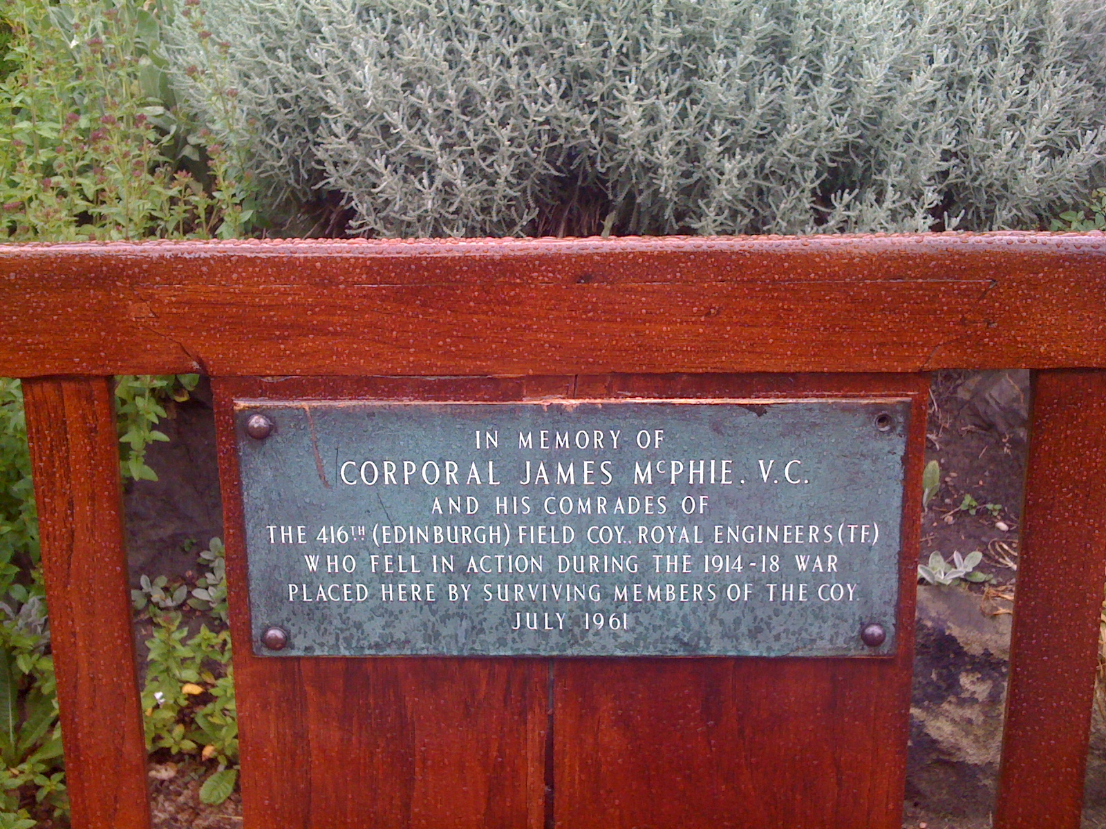 memorial plaque on a park bench in Princes Street Gardens Edinburgh dedicated to Corporal McPhie and men of his unit who fell 1914-1918